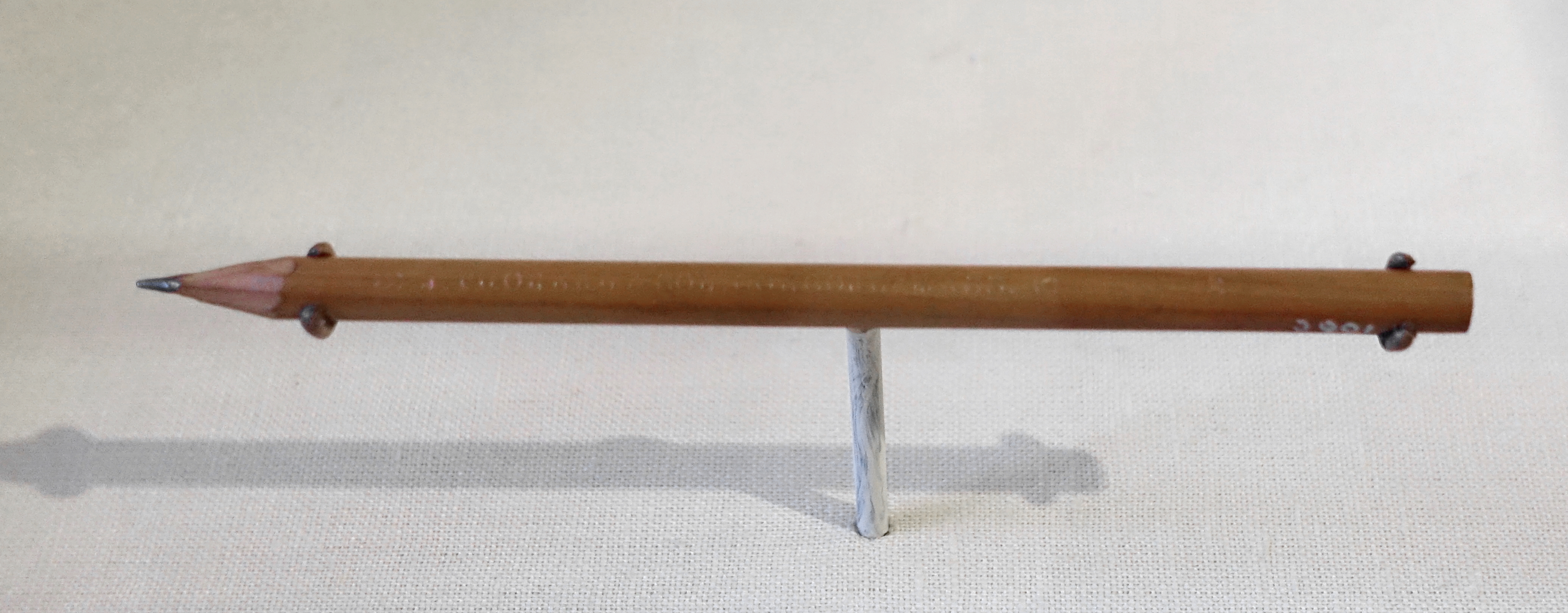 Exhibit in the Concord Museum, Concord, Massachusetts, USA.